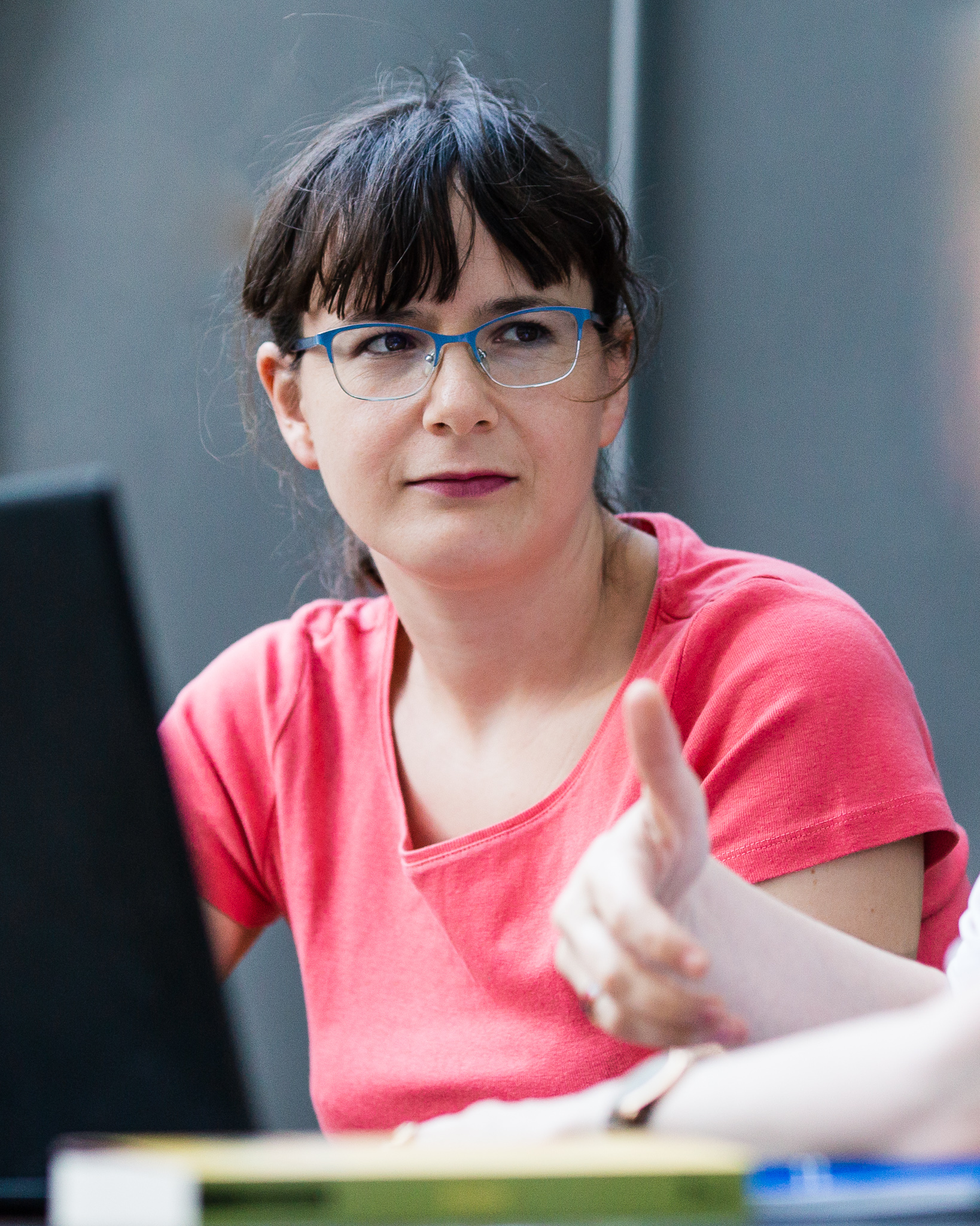 Ivana Dobrakovová on Authors’ Reading Month 2018, Wrocław, Poland